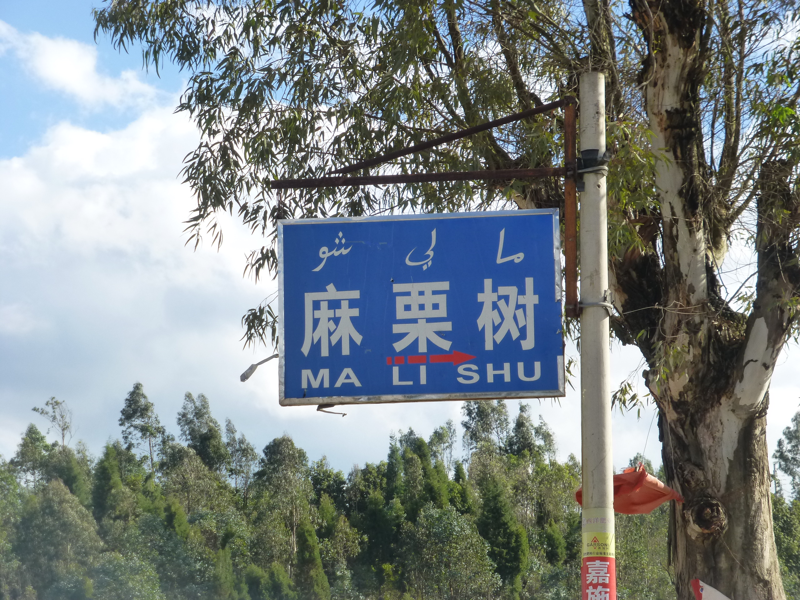 Sign for Malishu Village on Yunnan Hwy S214, south of Qujiang Town, Jianshui County, Yunnan, next to a eucalyptus tree. (Lots of such trees are planted along this road)